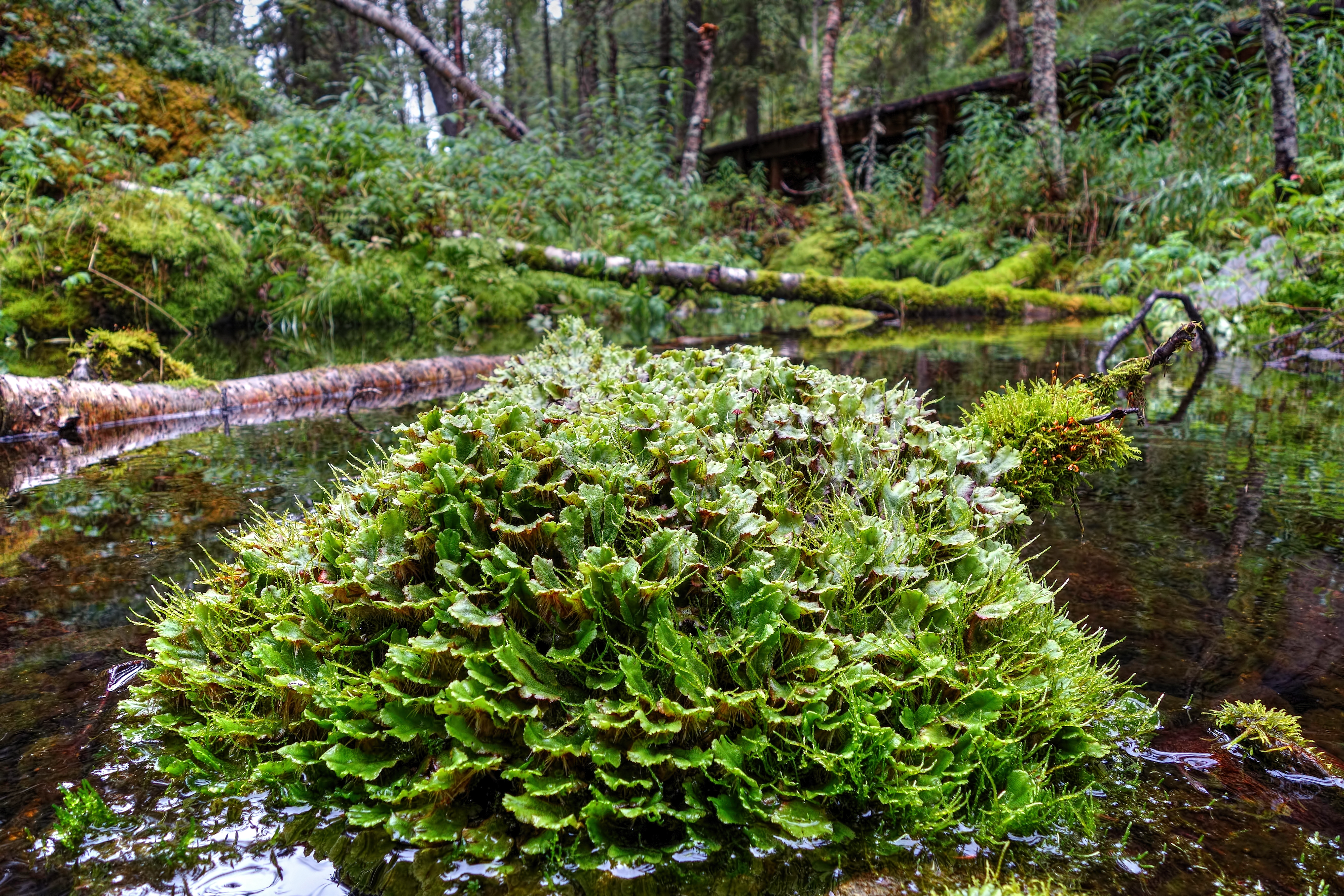 Gamtophyte of Marchantia polymorpha subsp. montivagans with intermixed Calliergon cordifolium